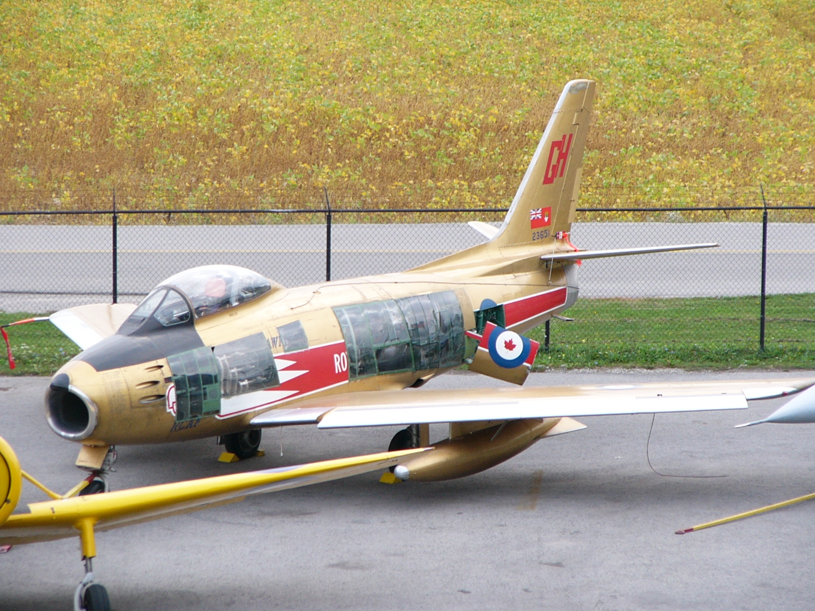 The Canadair Sabre Mk VI that belongs to the the Canadian Warplane Heritage Museum, John C. Munro International Airport, Hamilton, Ontario